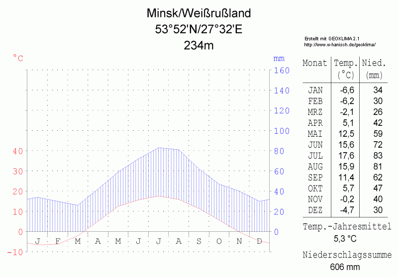 climate chart in the format by Walther and Lieth, metric, °Celsisus and millimeters, made with Geoklima 2.1